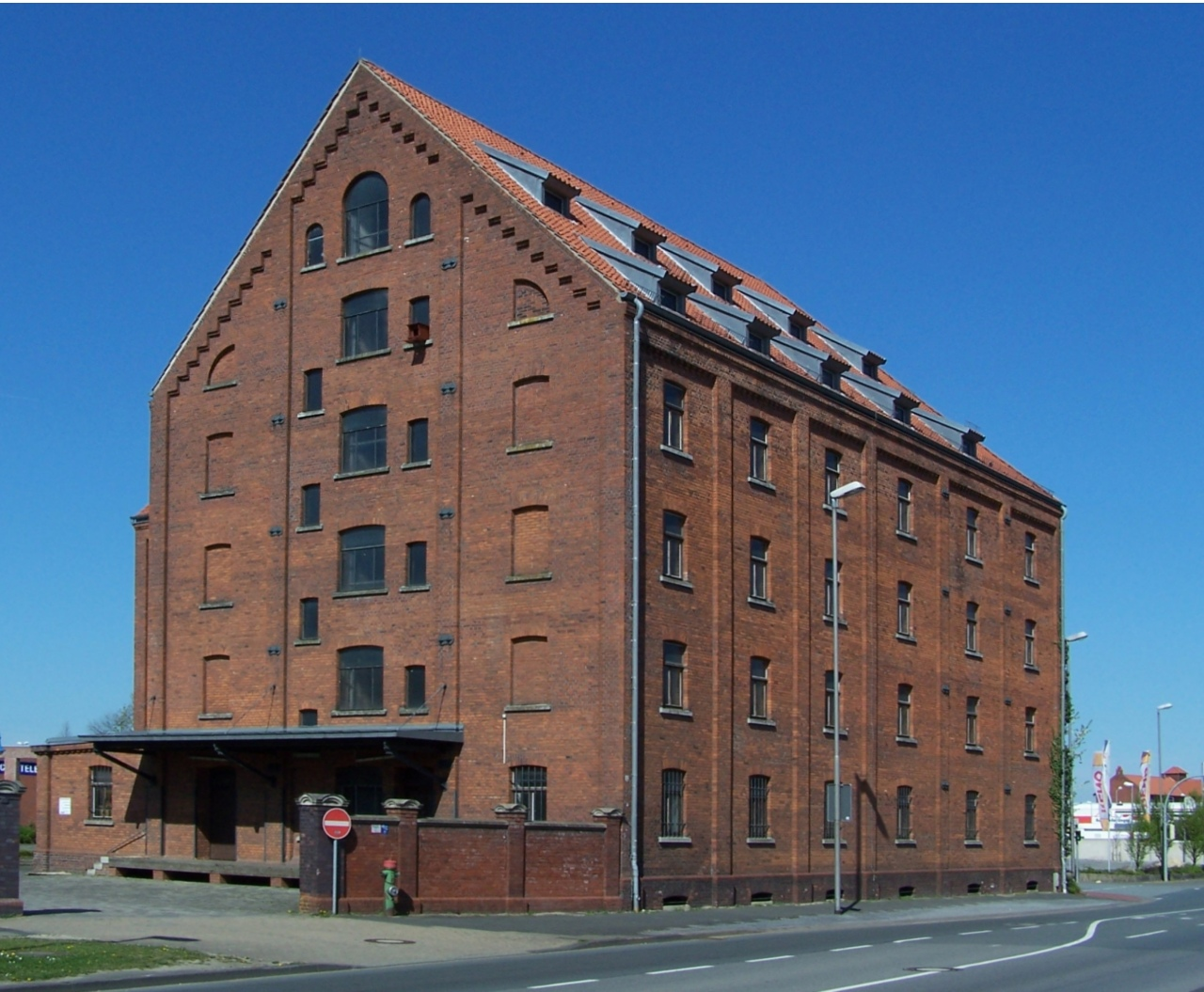 Tobacco warehouse, town of Bünde, District of Herford, North Rhine-Westphalia, Germany.